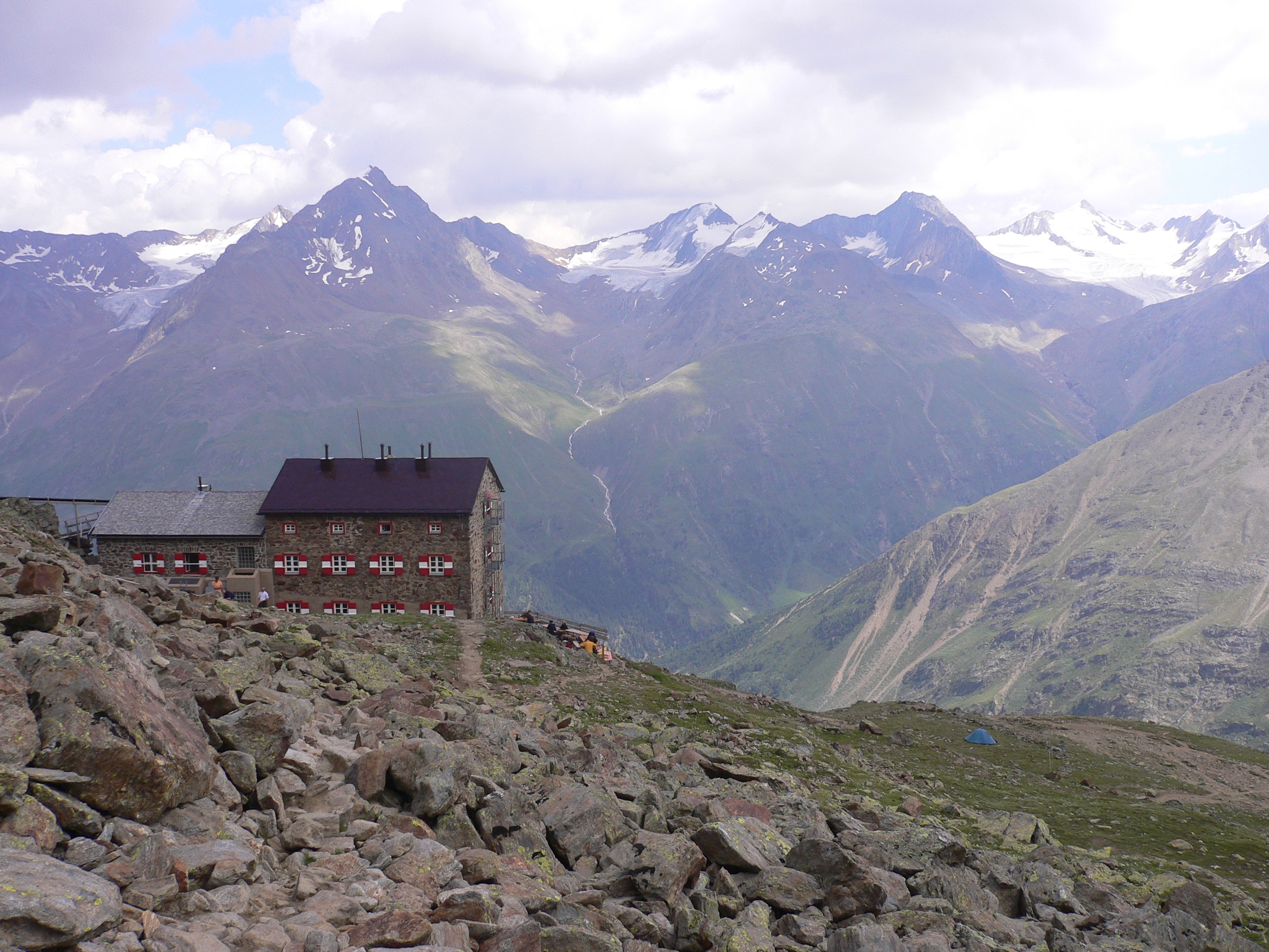 Breslauer Hütte, Ötztaler Alpen , Austria. Mountains from left to right: Nördlicher Ramolkogel (3427m), Großer Ramolkogel (3549m), Kleiner Ramolkogel 3349m, Ramoljoch 3189m. Hinterer Spiegelkogel (3424), Mittlere Spiegelkogel, Vorderer Spiegelkogel. Firmisianschneid 3490m, Schalfkogel (3537m) and Hinterer Diemkogel (3398m)